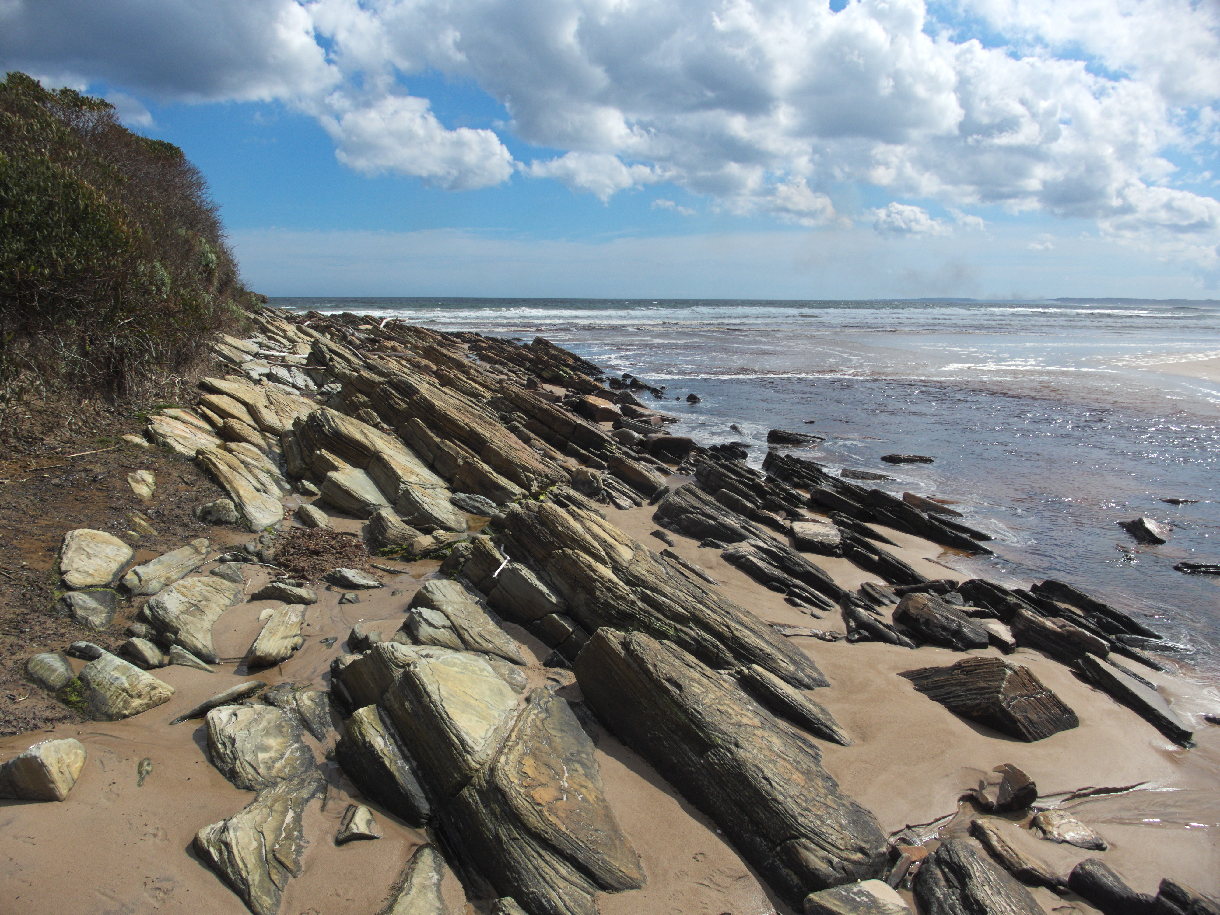 Rocks on the coast at Sundown Point, Tasmania.